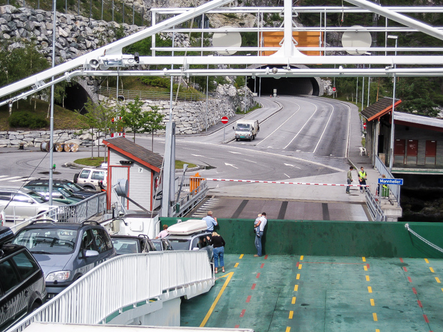 Mannheller ferry terminal